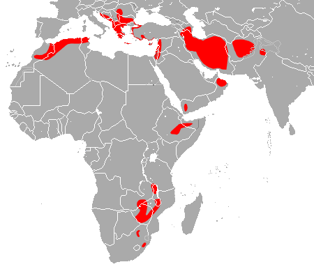 Blasius's Horseshoe Bat (Rhinolophus blasii) range